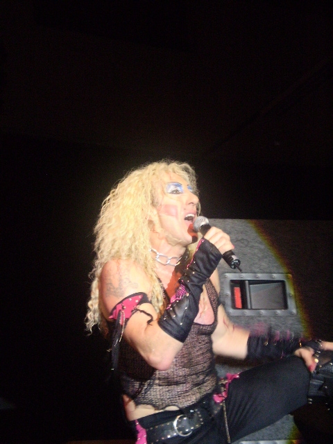 Twisted Sister frontman Dee Snider at Solnahallen in Solna Municipality, Stockholm County, Sweden.